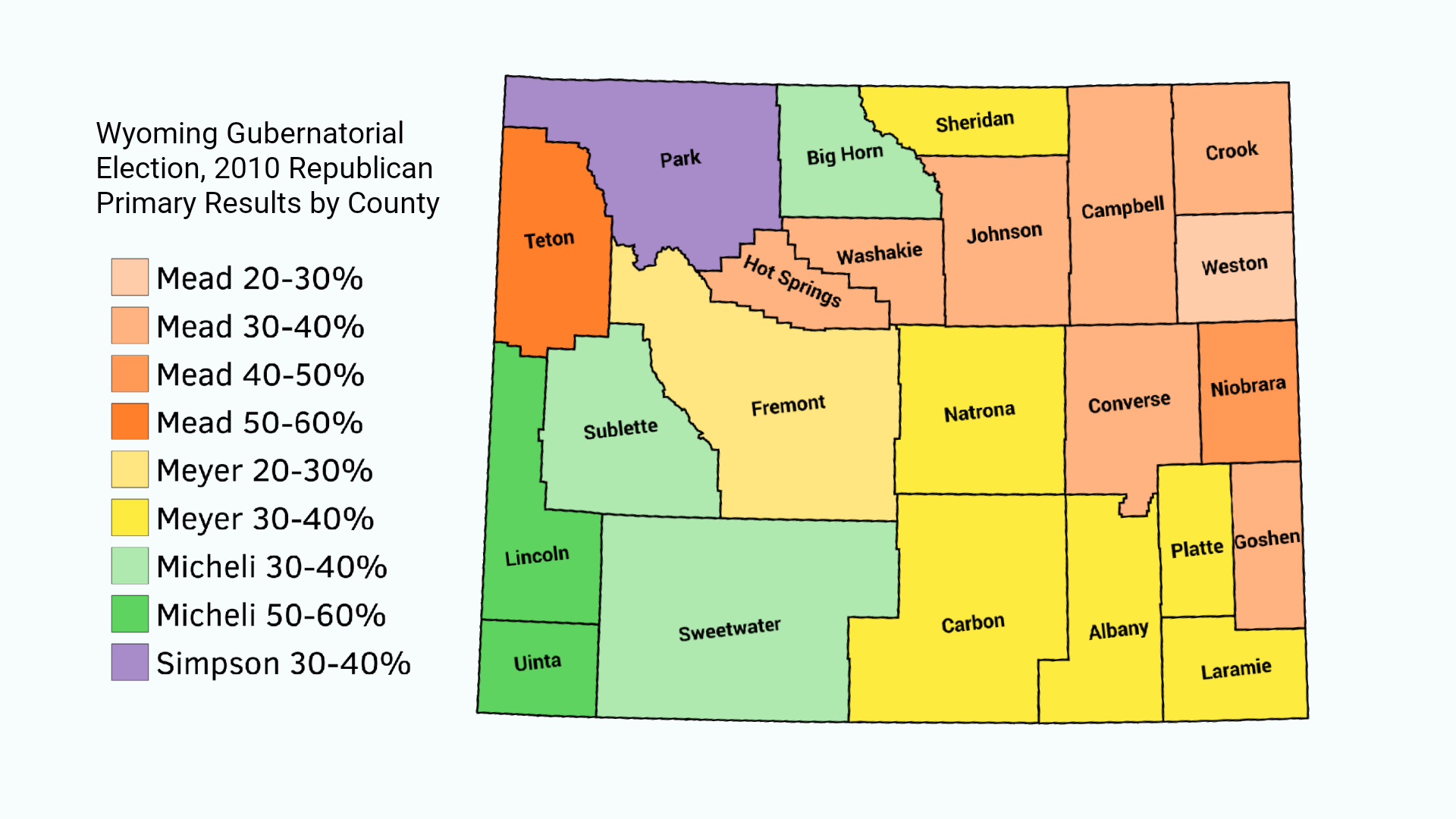 Map showing the results of the 2010 Republican Gubernatorial primary in Wyoming by County.